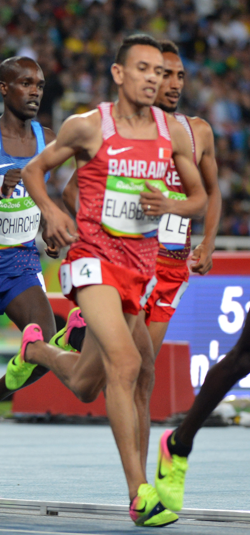 El Hassan El-Abbassi at the 2016 Rio Olympic Games in Rio de Janeiro.